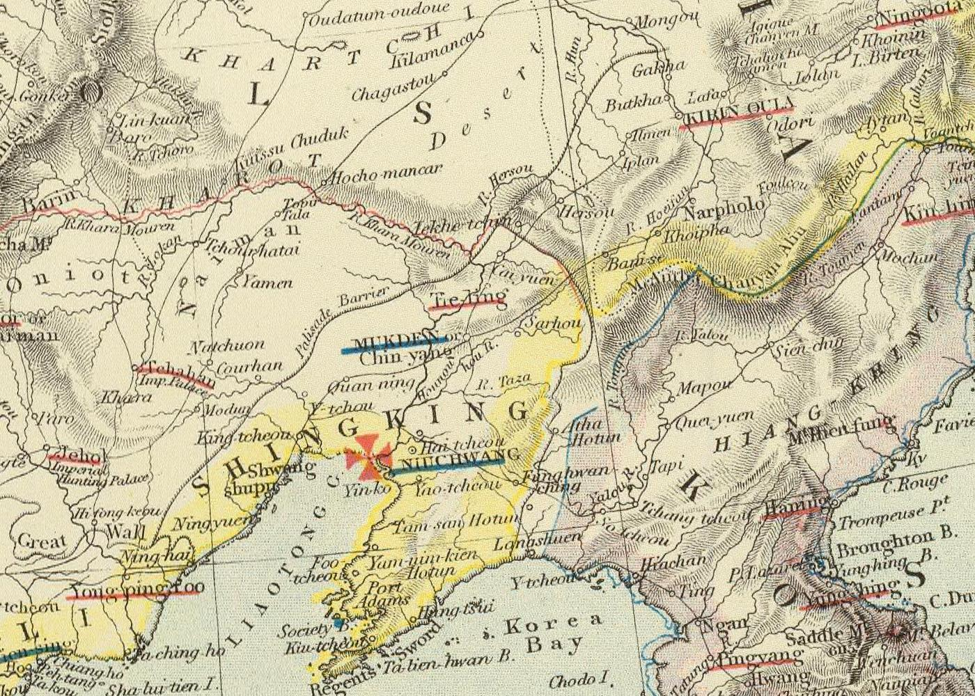 Russia in Asia, Chinese Empire, etc. No. 3. This is a section of the map that shows southern Manchuria, and, in particular, the Willow Palisade